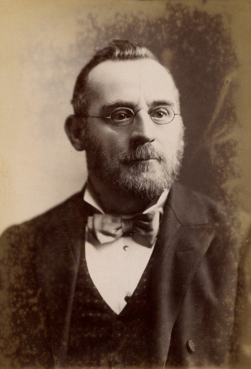 Portrait of Arthur Corbin Gould (1850–1903), according to A.C. Gould at